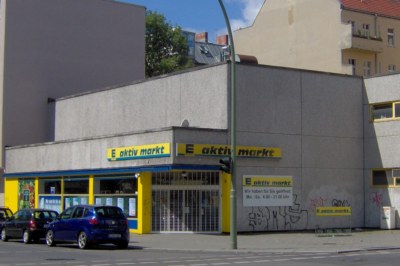 supermarket, end of 3 "Lola rennt" runs